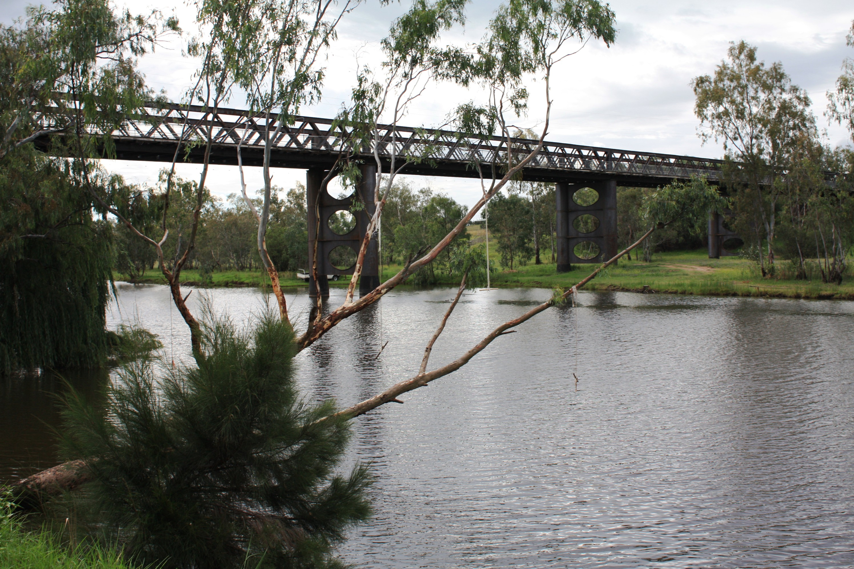 Gwydir River & Roadbridge at Bingara, NSW, Australia.